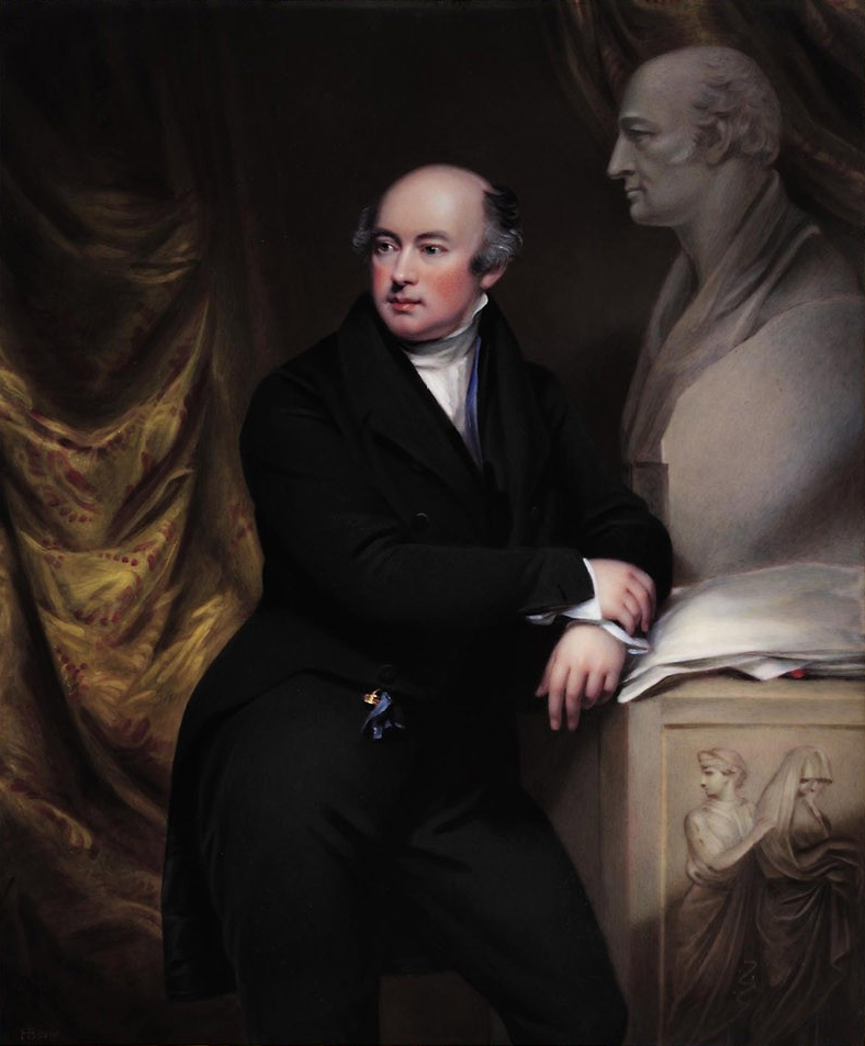 Sir Francis Leggatt Chantrey, R.A. (1782-1841), in black morning suit, blue waistcoat with gold fob-seal,standing beside the bust of William Hyde Wollaston, F.R.S. (1766-1828) on a plinth signed, dated and inscribed on the counter-enamel 'Francis Chantrey Sculptor. R.A. London 1831 Painted in Enamel by Henry Bone R.A. Enamel painter to His Majesty &c &c after the *Original by J. Jackson R.A.' enamel on copper 242 x 188 mm.